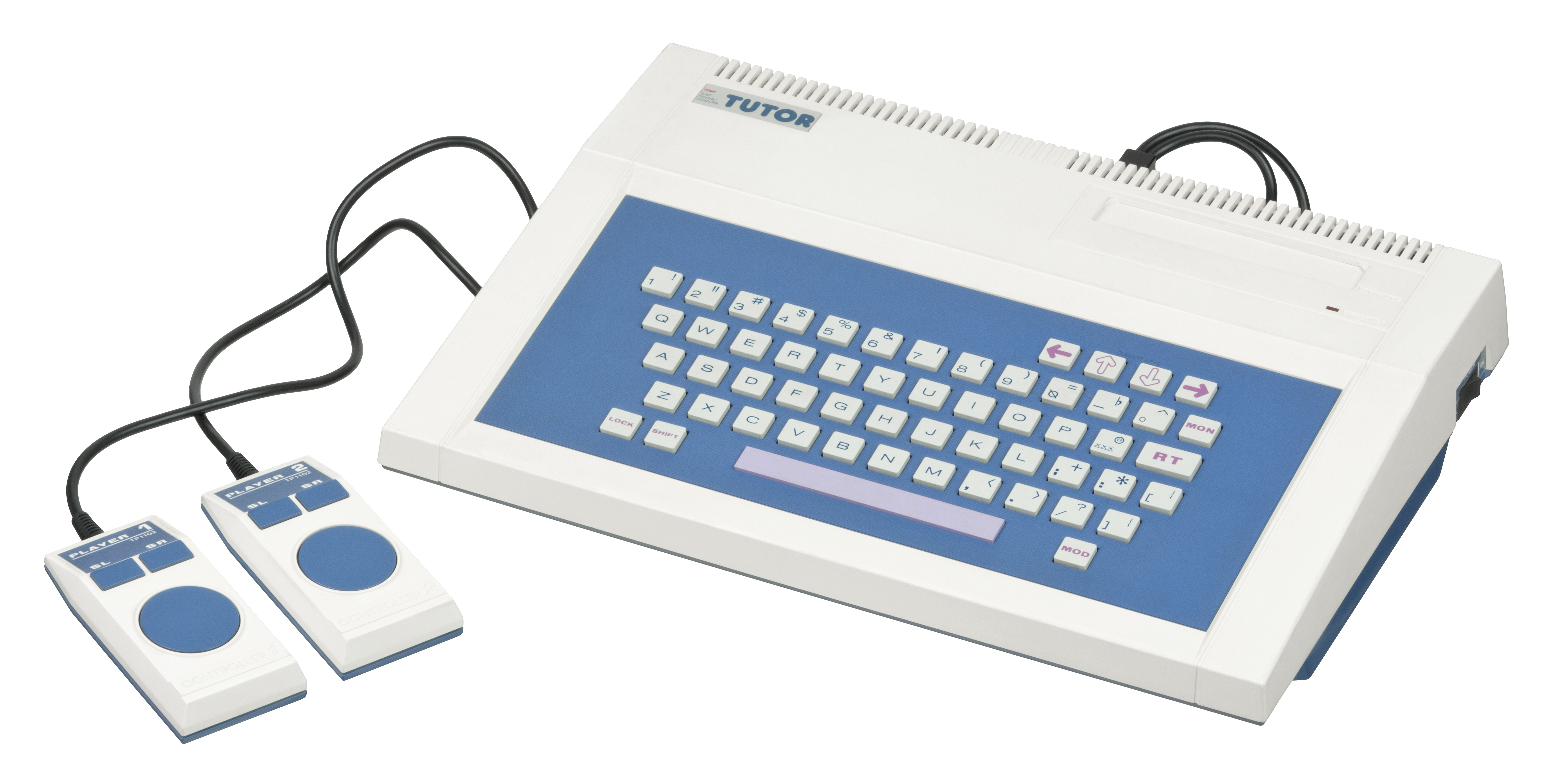 The Tomy Tutor (shown with optional controllers), a 16-bit home computer that was made by the Japanese toymaker Tomy and launched in the United States in 1983. The Tutor focused on children and education, with a software library made up of games and learning titles.